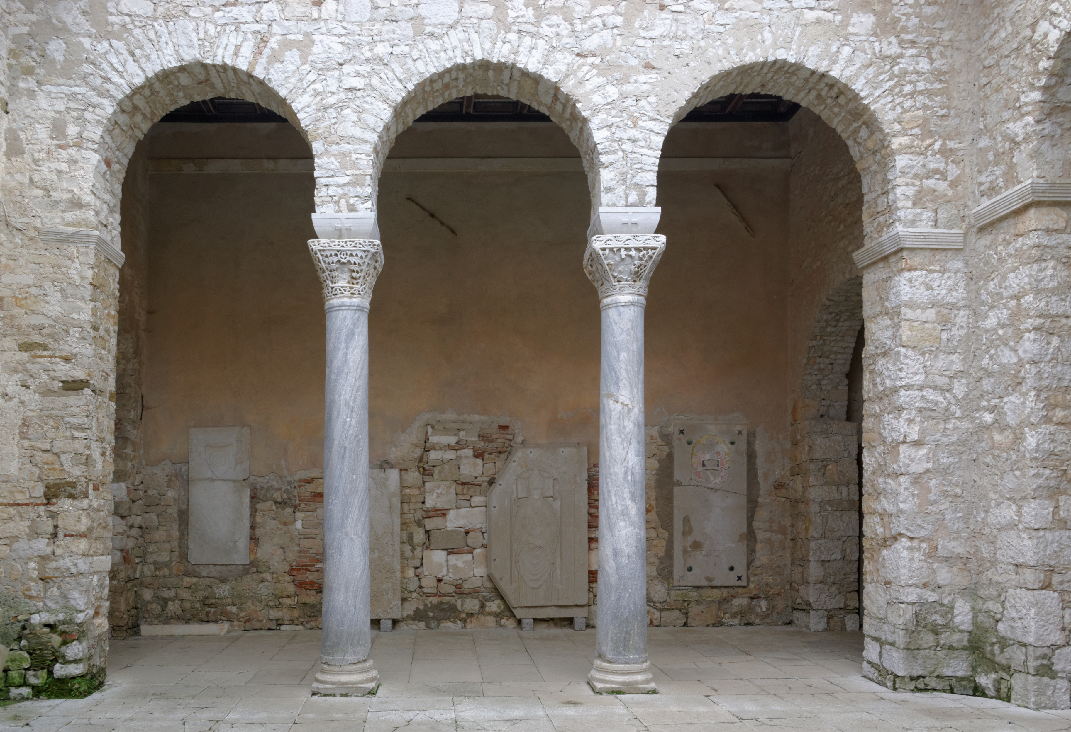 Croatia, Poreč, Euphrasian Basilica, atrium